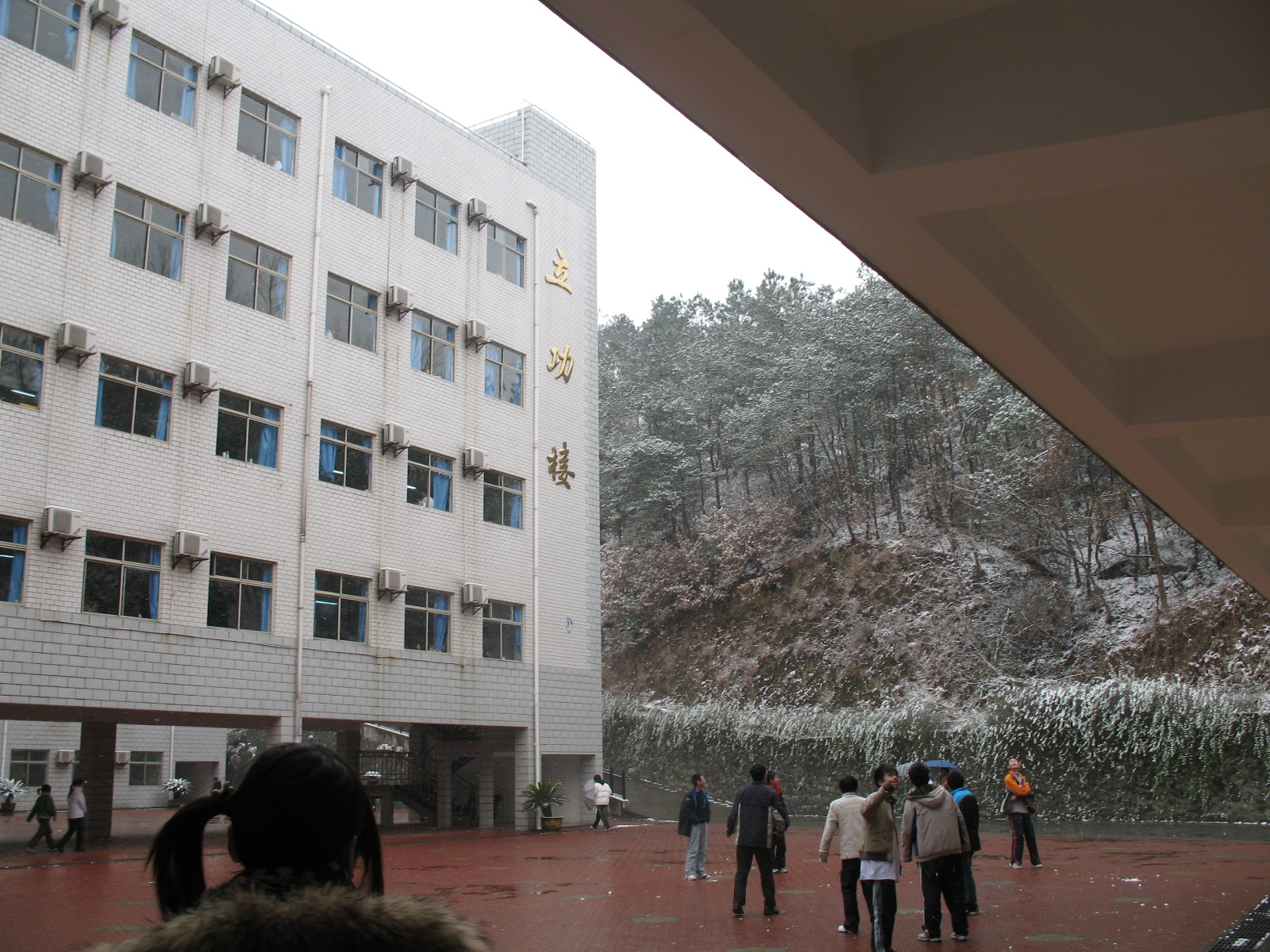 Teaching building of Dongfeng High School.